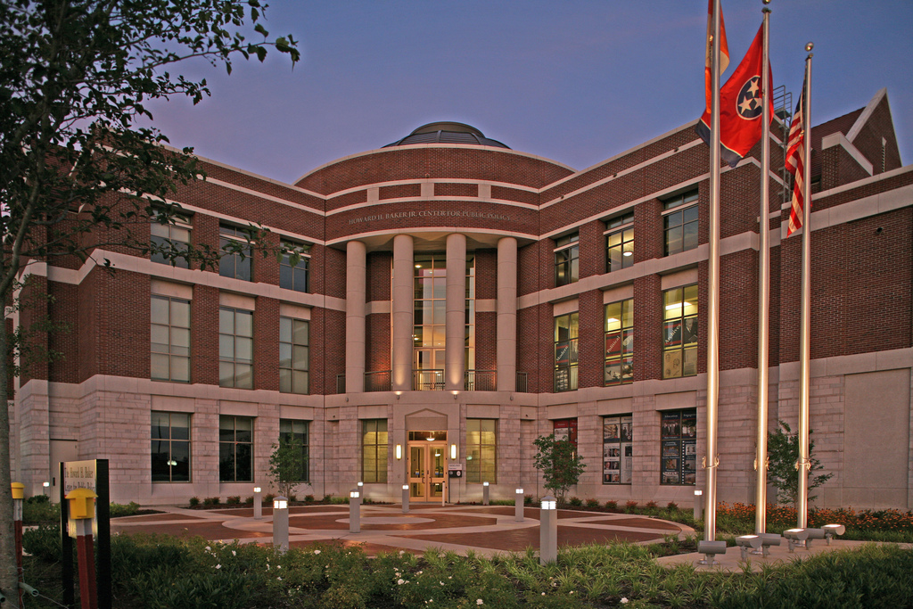 Howard H. Baker Center for Public Policy Building